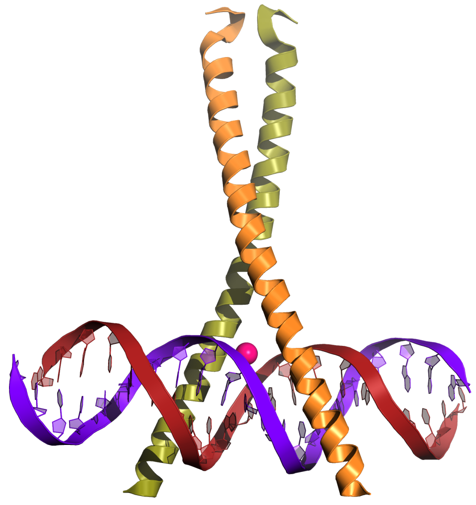 leucine zipper: CREB-1 binding to DNA. Data used from 1dh3. The magnesium ion is colored in green